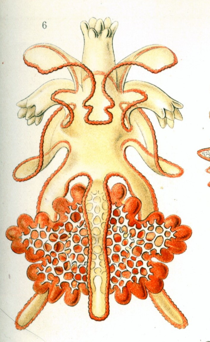 Asterias sp., older brachiolaria larva from below